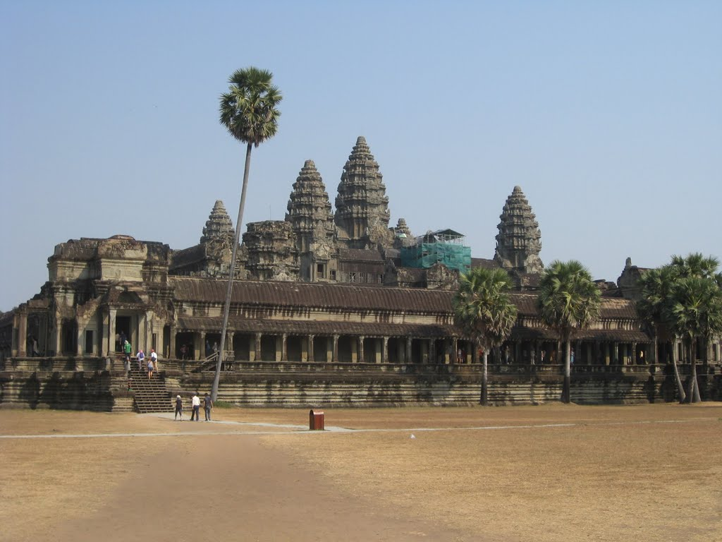 Gallery of the temple and its towers.